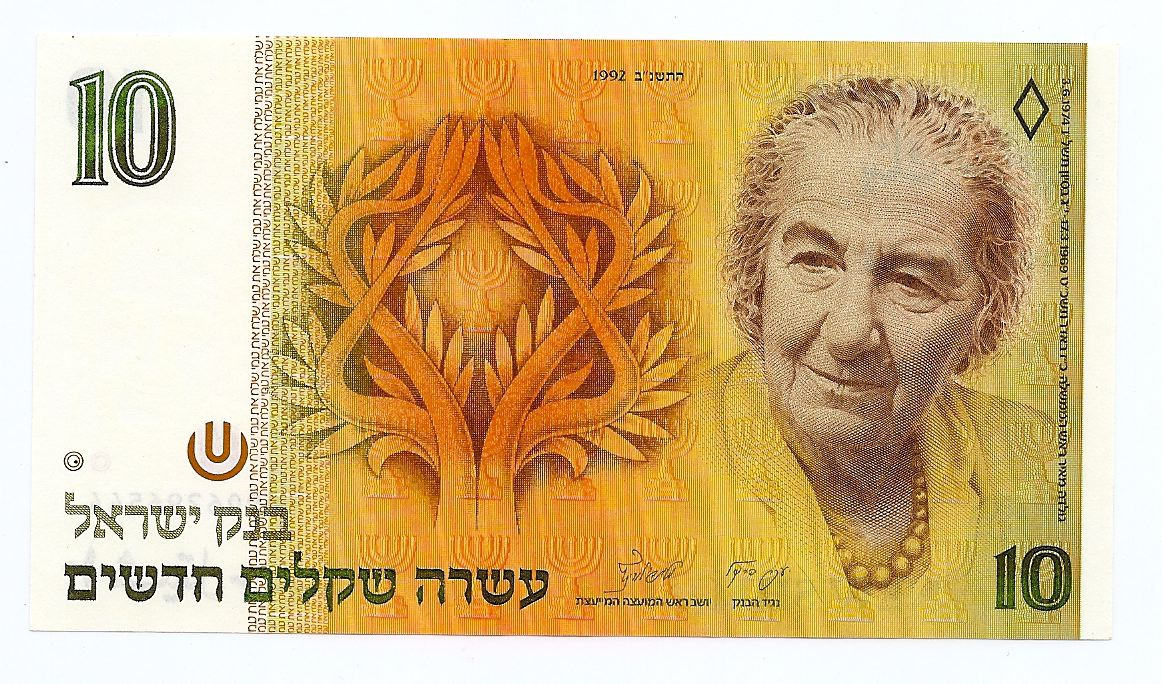 Israel 1992 New Sheqalim Banknote G. Meir. Meir, Golda, Teacher, Politician, 1898 Kiev, Ukraine - 1978 Jerusalem Overse: Bust of Gola Meir at r. Condition: A perfect UNCIRCULATED bank note, with no hidden problems.